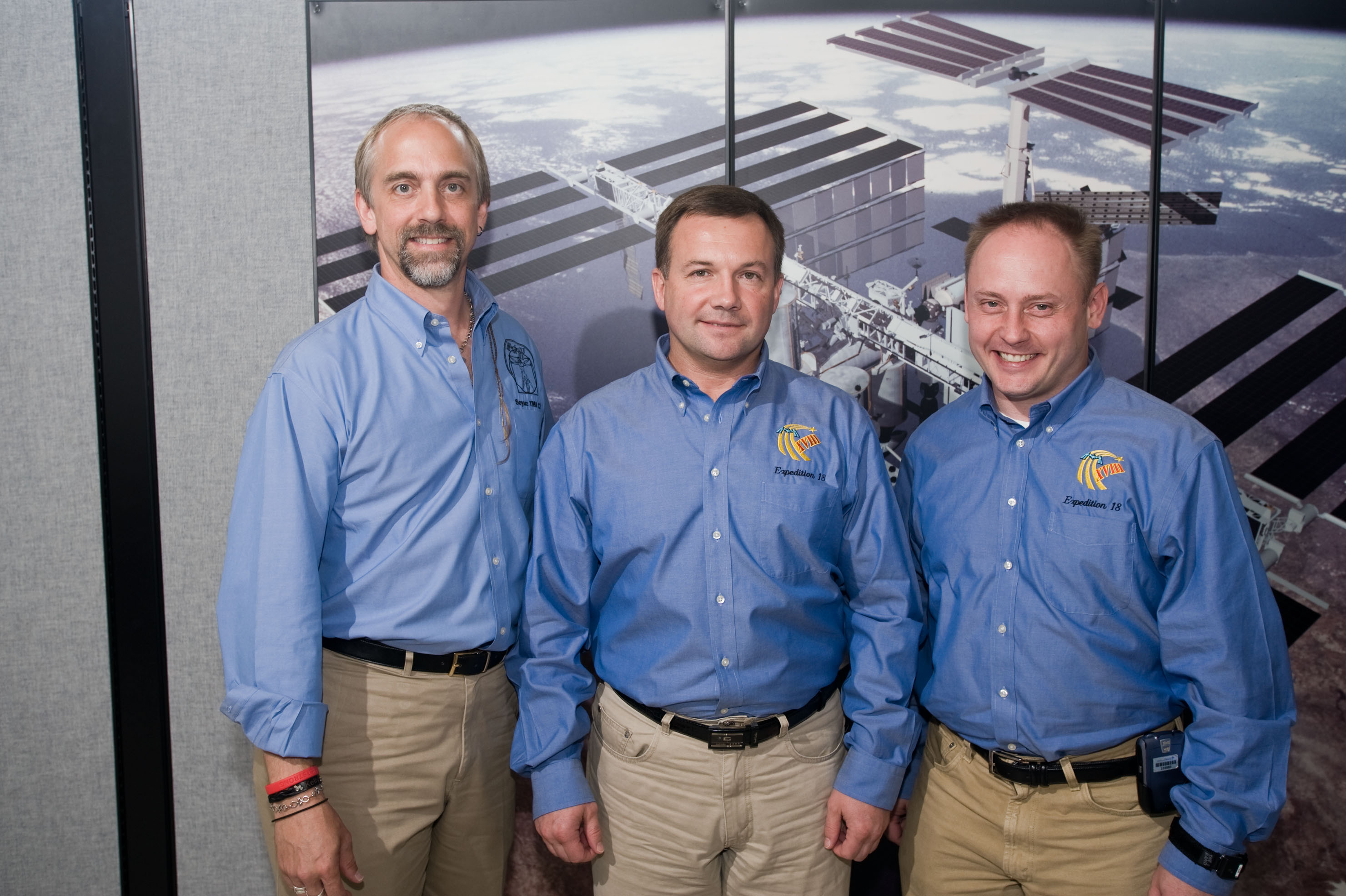 NASA astronaut Michael Fincke (right), Expedition 18 commander; Russian Federal Space Agency cosmonaut Yury Lonchakov (center), flight engineer; and American spaceflight participant Richard Garriott pose for a portrait following an Expedition 18/Soyuz 17 pre-flight press conference at NASA's Johnson Space Center. Fincke, Lonchakov and Garriott are scheduled to launch to the International Space Station in a Soyuz spacecraft in October.